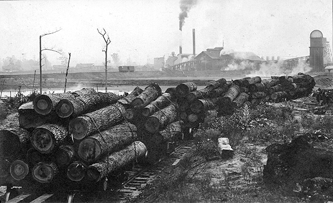 Photograph of nine cars of hardwood timber on a switch near the Southern Pine Lumber Company sawmills, which are shown in the background. Published in the "American Lumberman" in 1907.This photograph is part of the collection entitled: American Lumberman: Photographs of Southern Pine Lumber Company and was provided by The History Center to The Portal to Texas History, a digital repository hosted by the UNT Libraries.